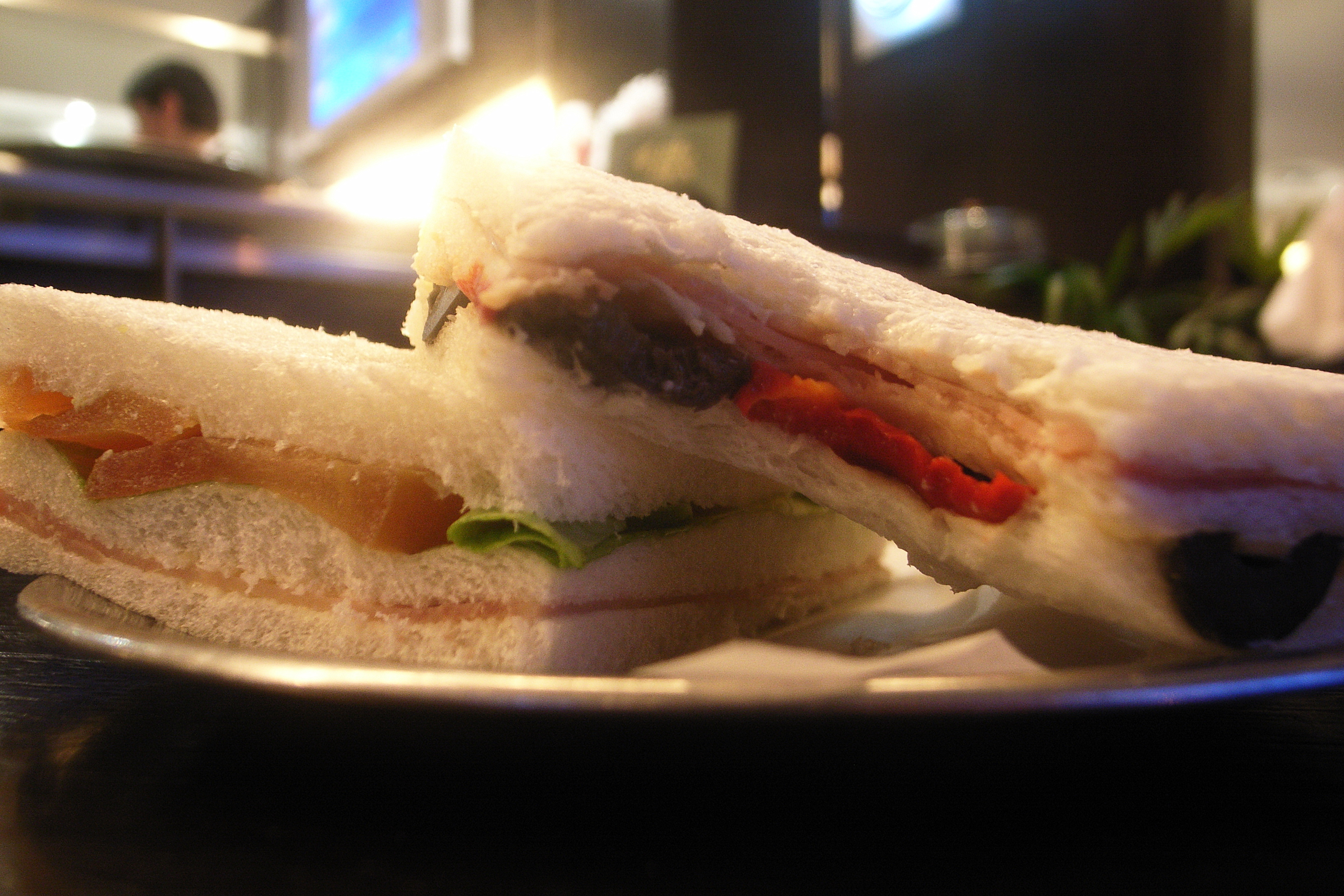 Oh so tasty, so light, so nice.